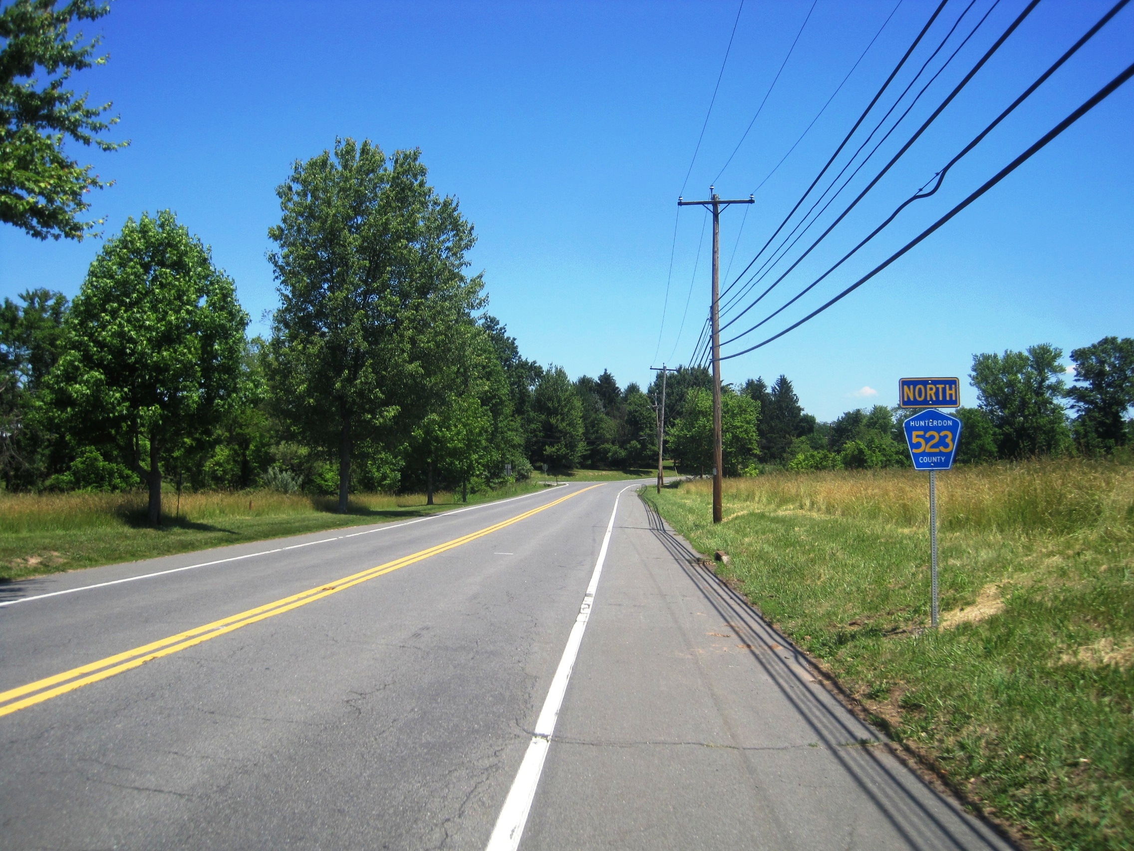 Photo of County Route 523 (Stockton-Flemington Road) northbound between Cemetery Road (CR 605) and Covered Bridge Road in Delaware Township.